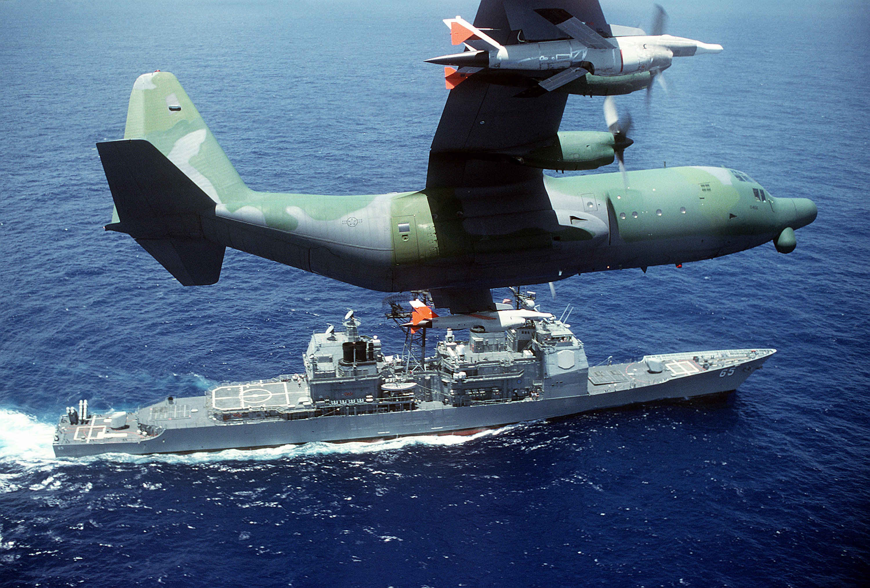 A DC-130H Hercules drone control aircraft banks to the left while passing over the guided missile cruiser USS CHOSIN (CG-65). Members of the 6514th Test Squadron will launch a pair of AQM-34 Firebee target drones from the aircraft during a test of the ship's Aegis anti-air warfare system.